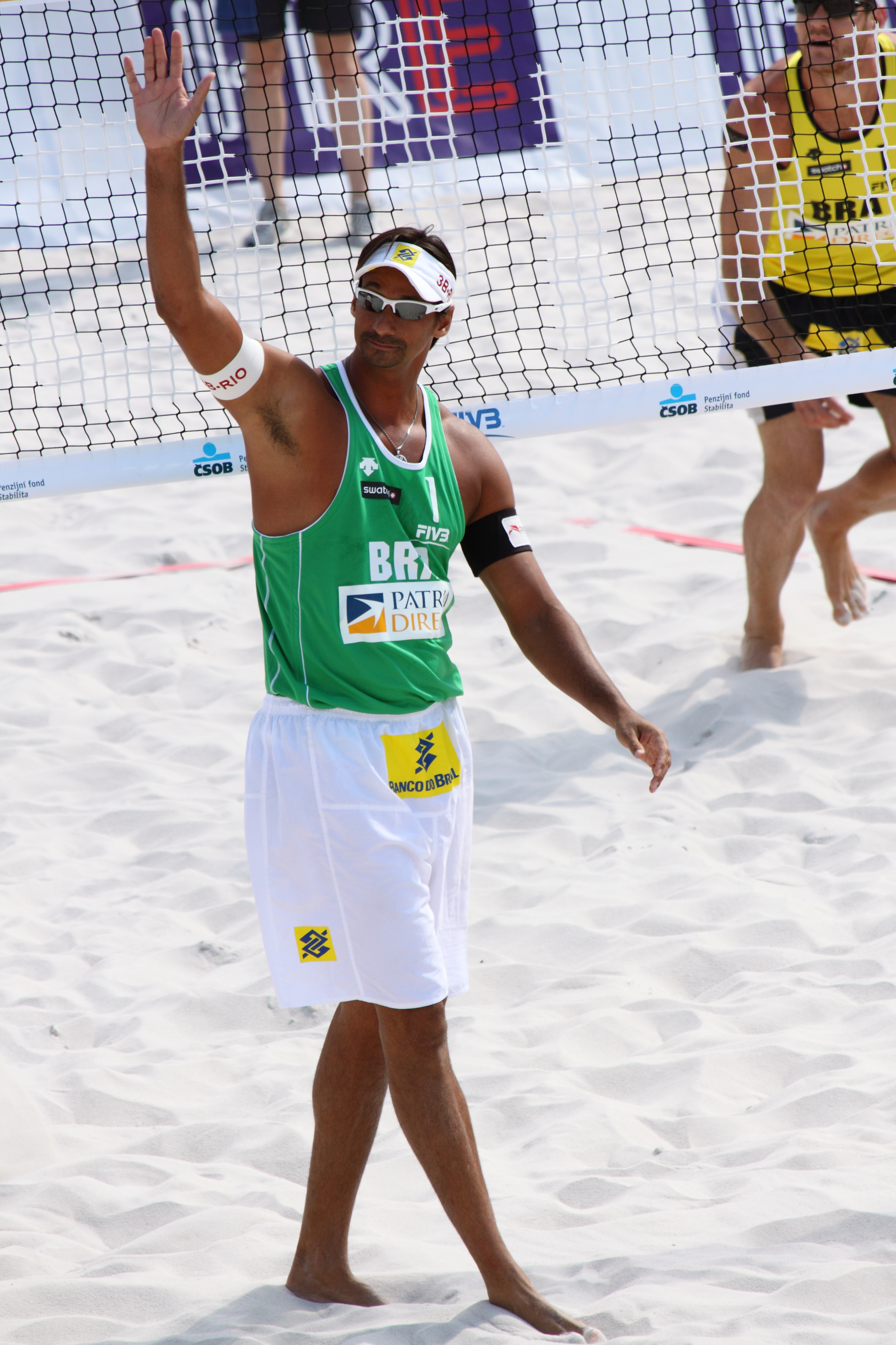 Ricardo Santos before the Patria Direct Open 2012 final match